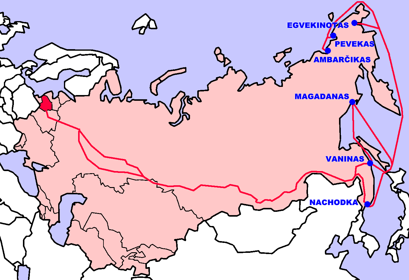 Prisoners' way from Lithuania to Dalstroy forced labour camps.